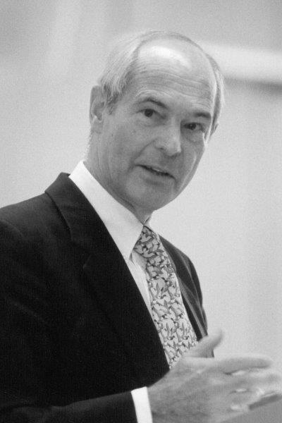 This is a picture of Otto von der Gablentz, rector of the College of Europe